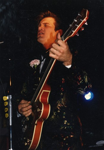 Chris Isaak playing at the Berkeley Square, Berkeley, California